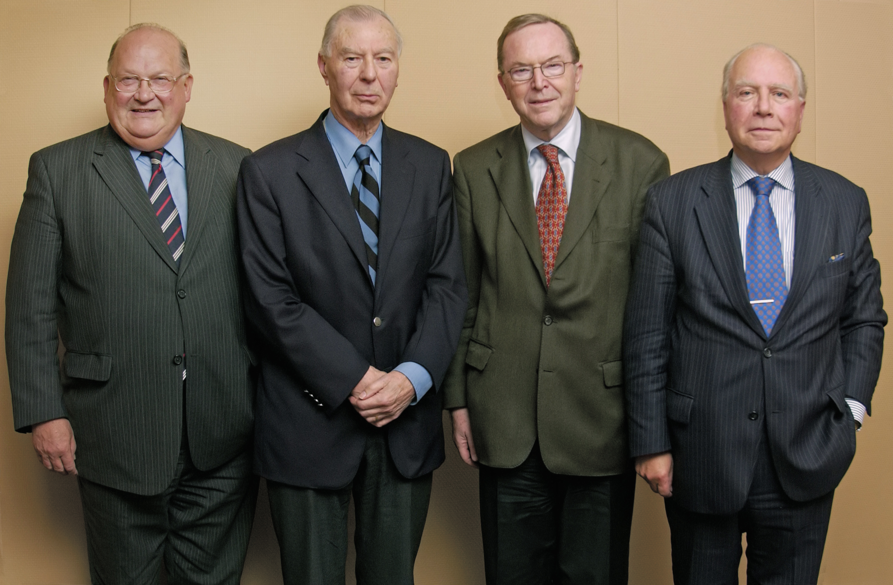 Interview, debat over toekomst Europa (DS en Frankfurter Allgemeine) met Jean-Luc Dehaene - Wilfried Martens - Leo Tindemans - Mark Eyskens en André Leysen (niet in beeld).